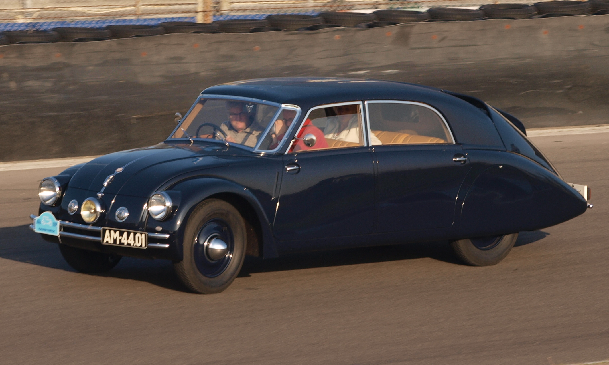 Photographed at the Nationaal Oldtimer Festival Zandvoort 2009, The Netherlands. OLYMPUS DIGITAL CAMERA